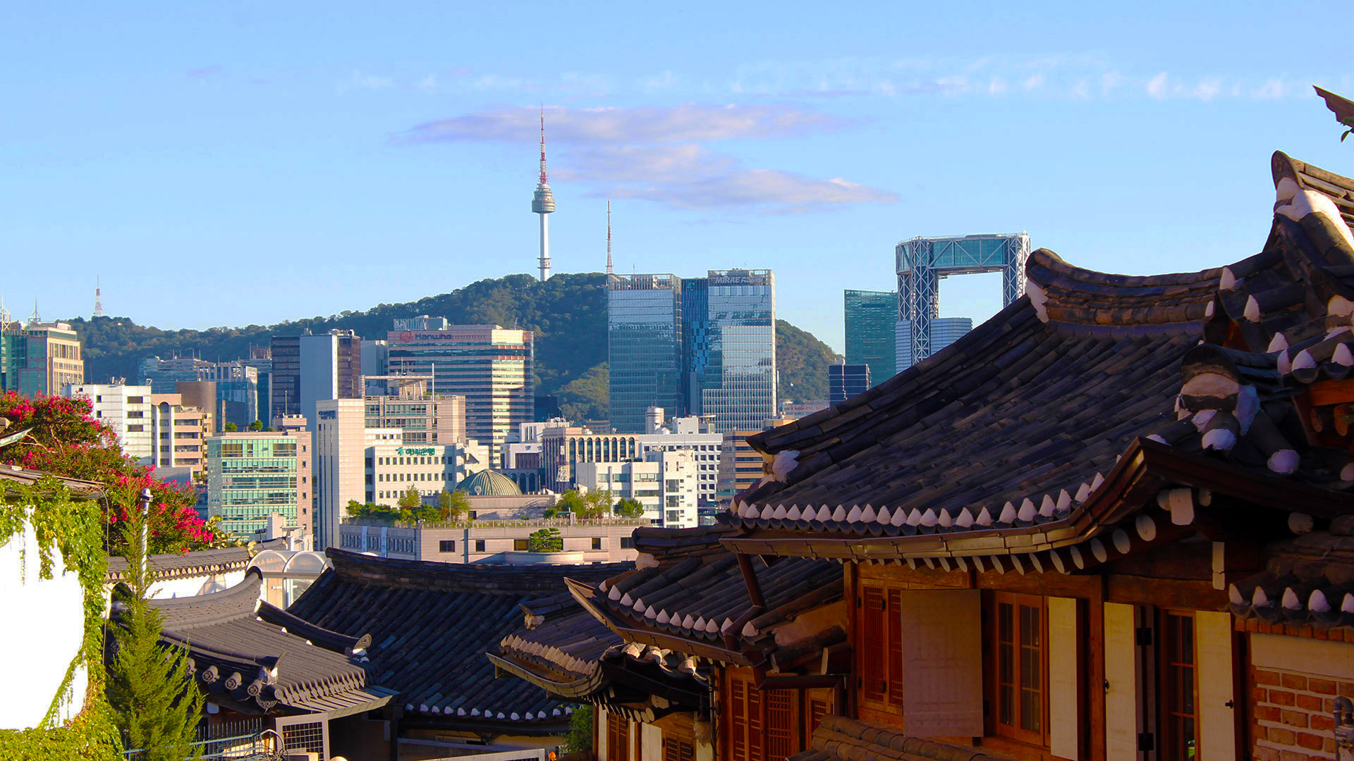 photo of seoul